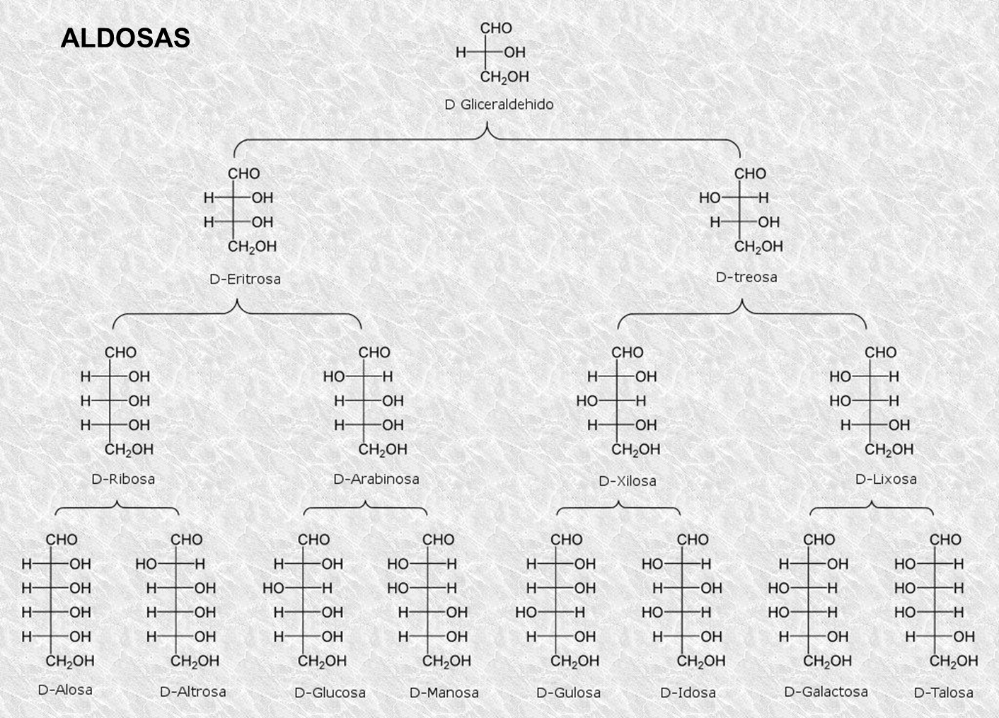 familia de los monosacaridos aldosas